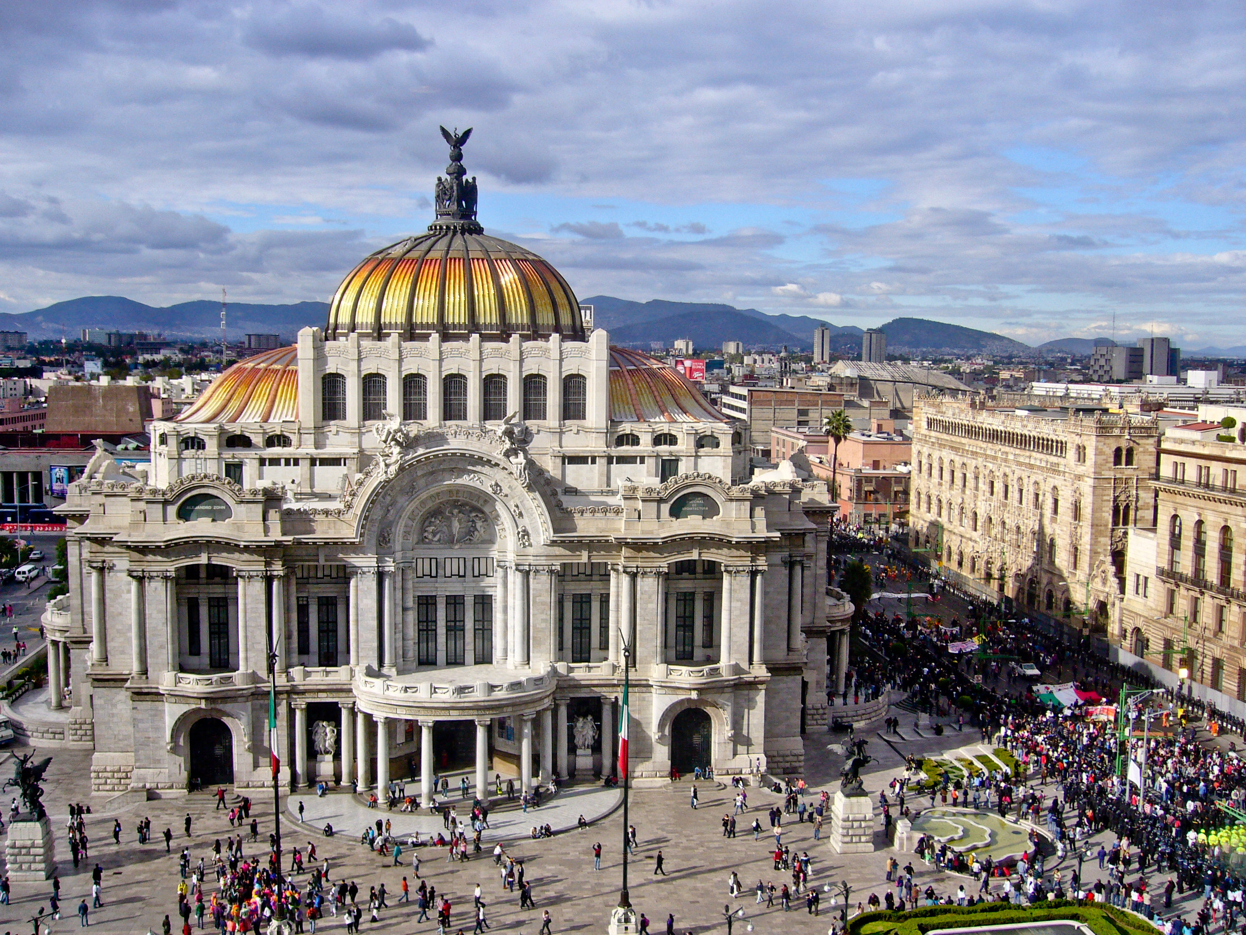 Palace of Fina Arts